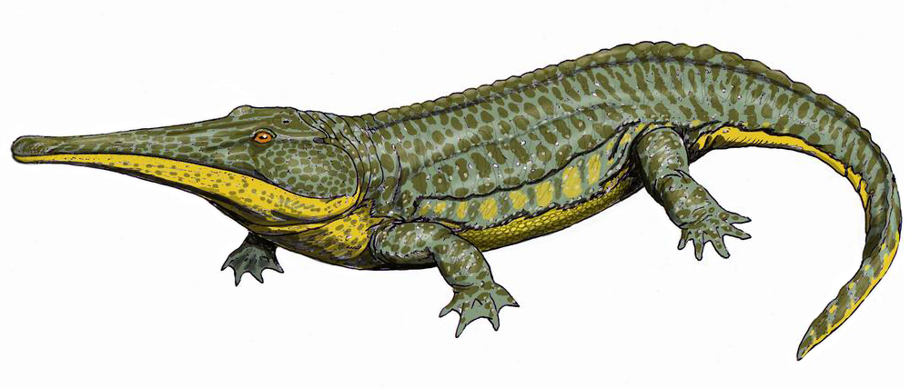 Platyoposaurus stuckenbergi, my own work